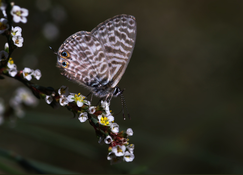 Lang's Short-tailed Blue or Common Zebra Blue is a small butterfly species from LYCAENIDAE family. (Adana-Turkey, November 2011)